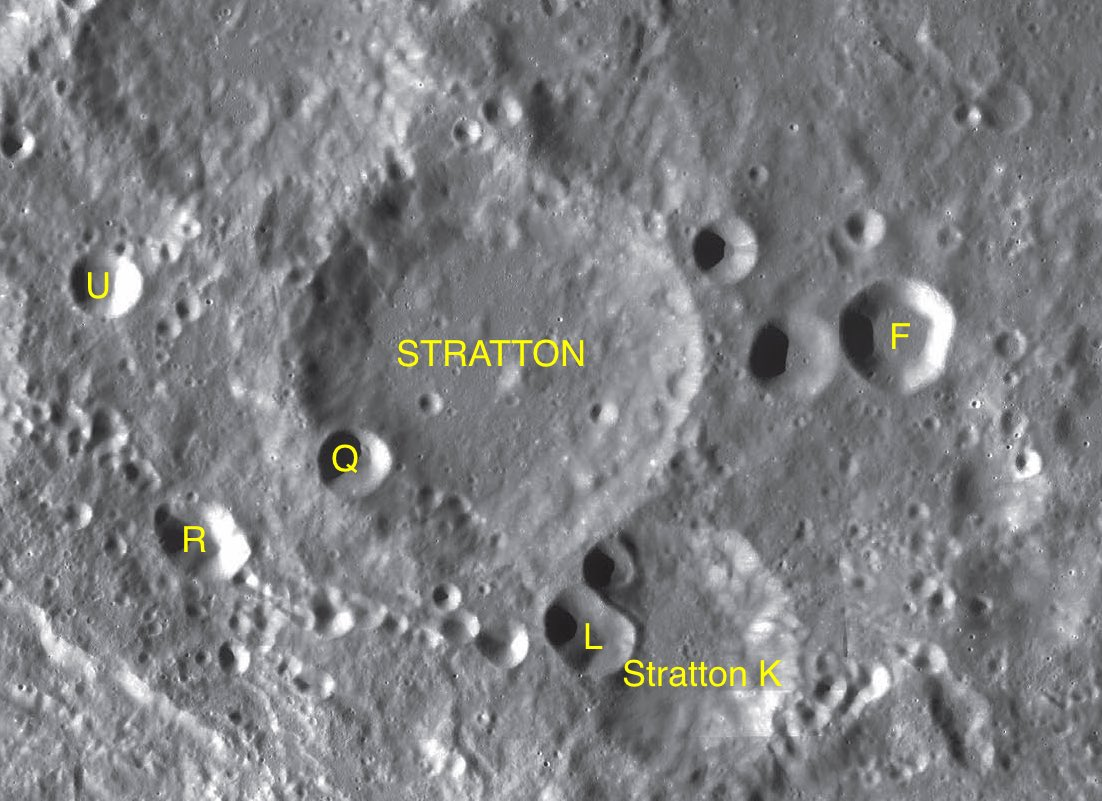 Part of the chart LAC-85 used for the presentation